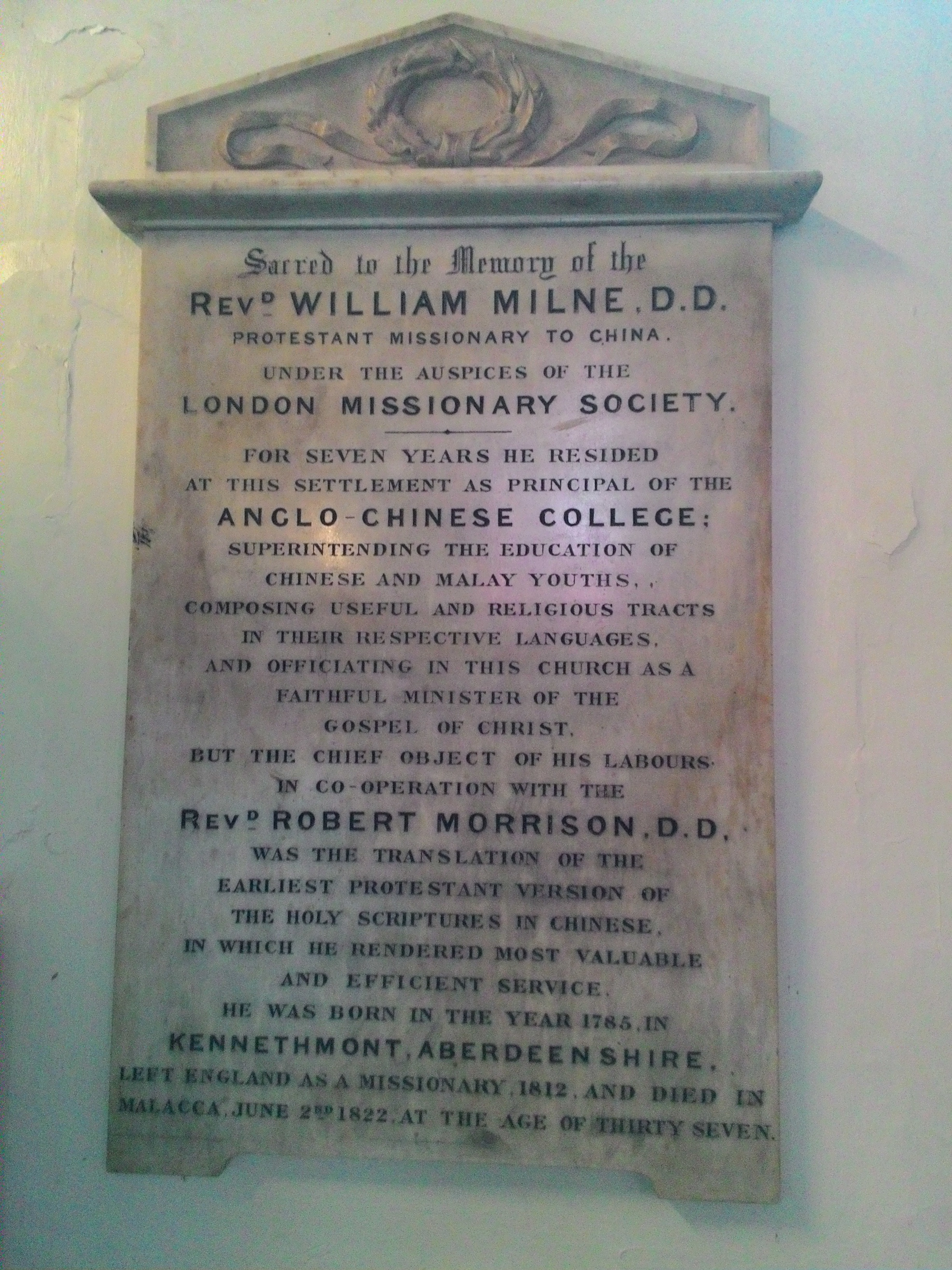 The headstone of the great Protestant missionary to Asia,William Milne located in Christ Church,Malaacca,Malaysia